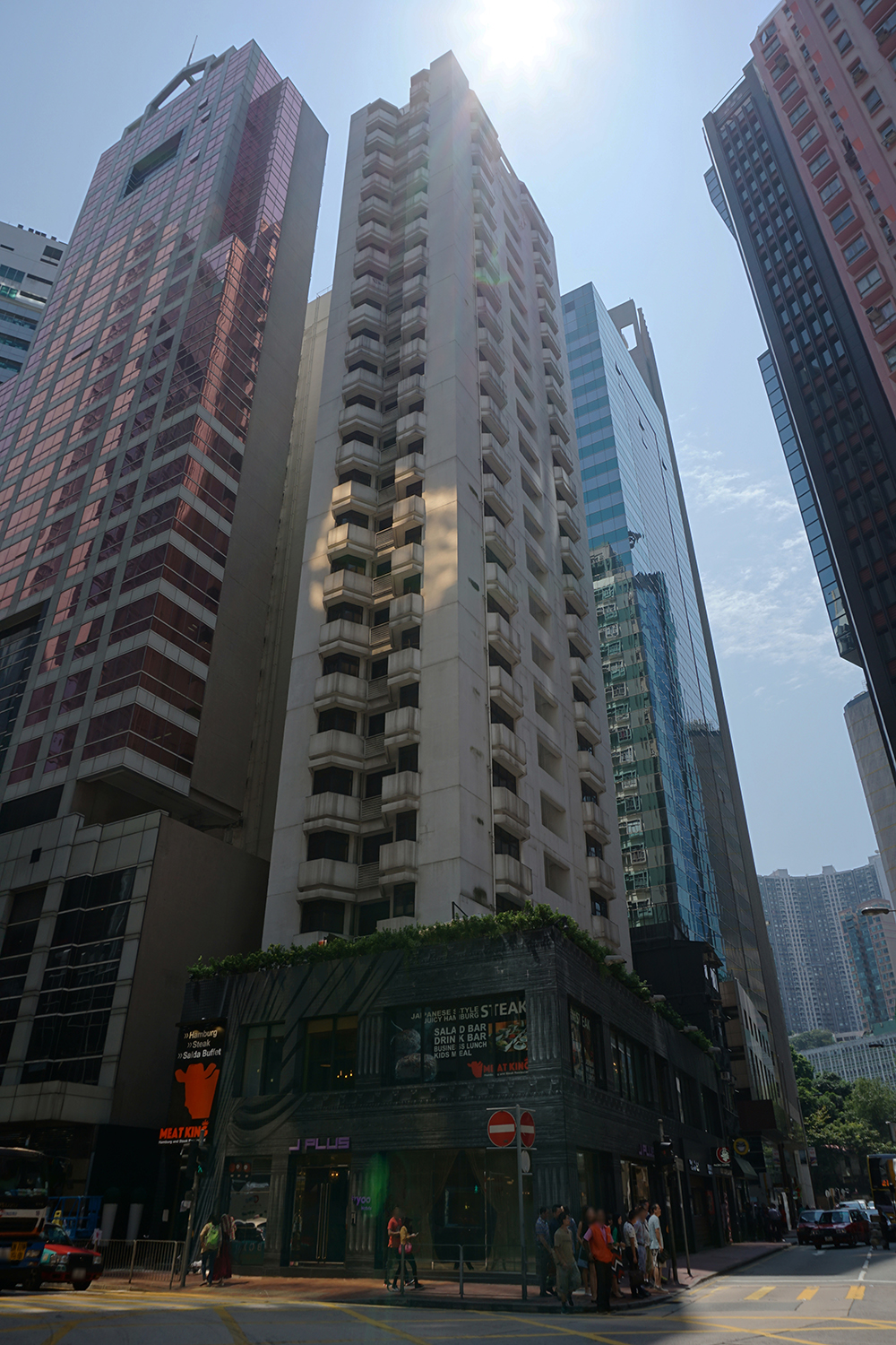 J Plus Boutique Hotel in Causeway Bay, Hong Kong.